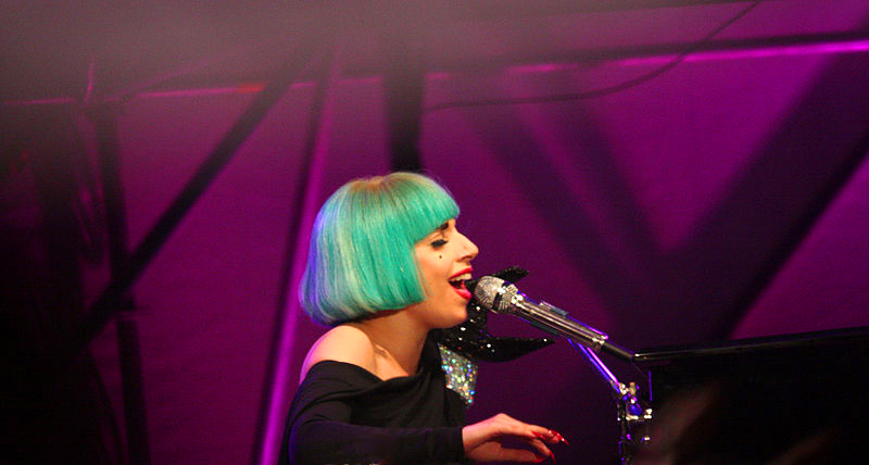 Lady Gaga performing at the 2011 EuroPride event in Rome, Italy.